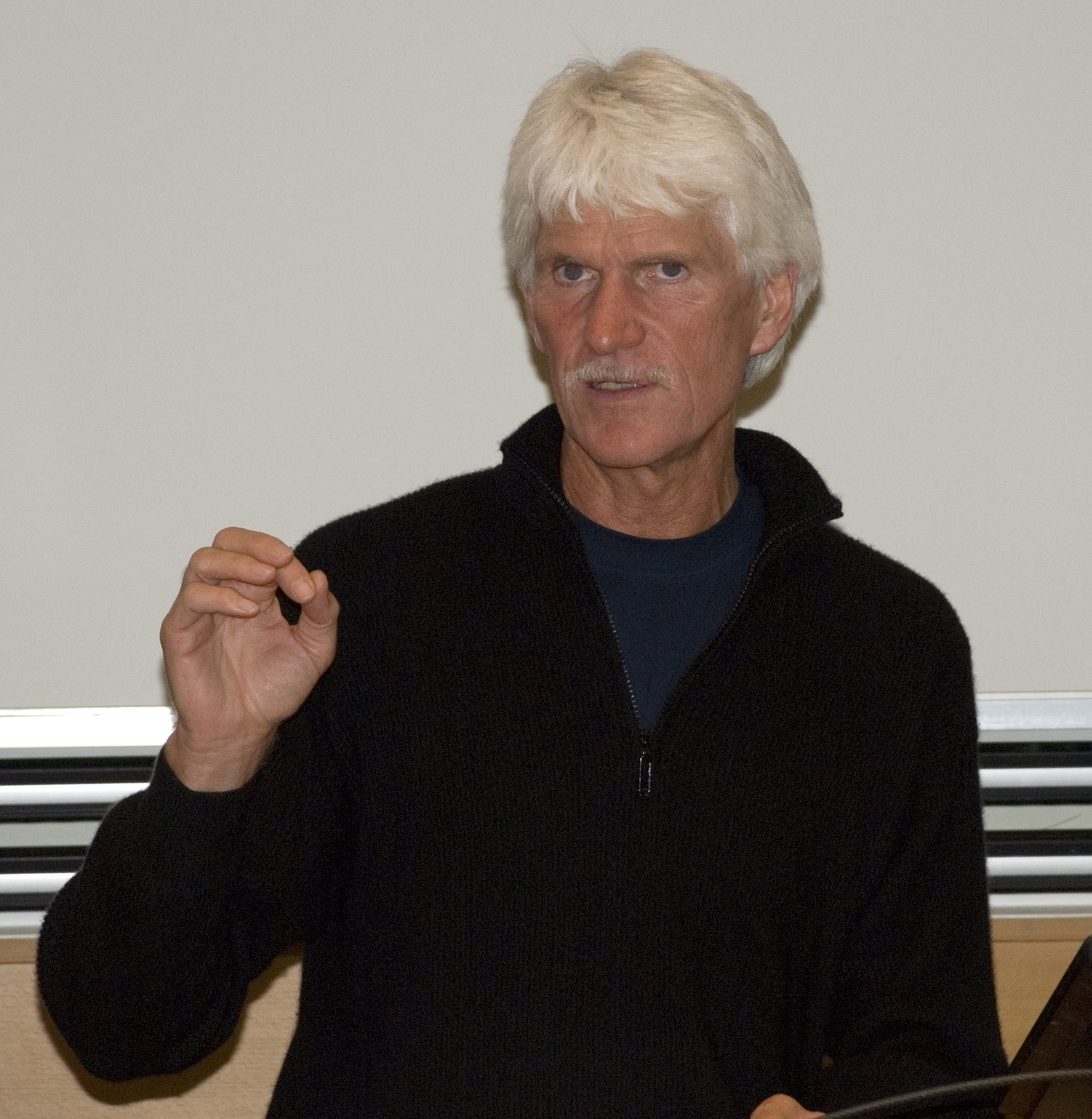 Michael Hartmann